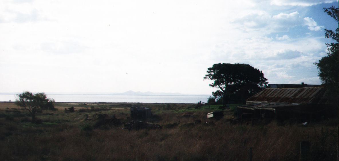 View from Lincoln's Farm at Portarlington, Victoria.